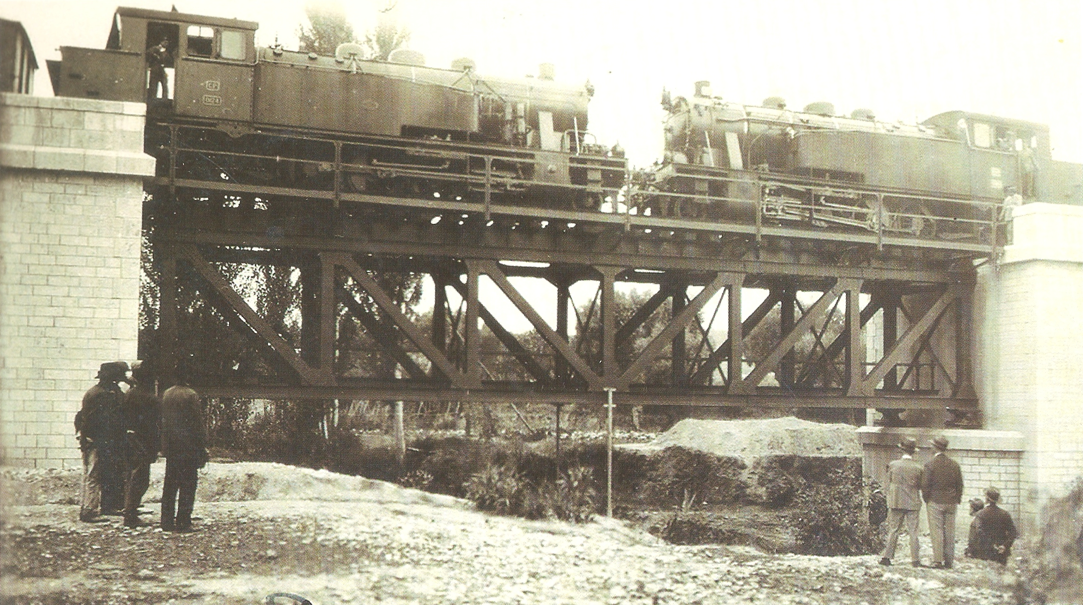 Trains of the Companhia dos Caminhos de Ferro Portugueses (Portuguese Railways Company), testing of the Bezelga Bridge, before the opening of the Tomar Railway, in 1928.